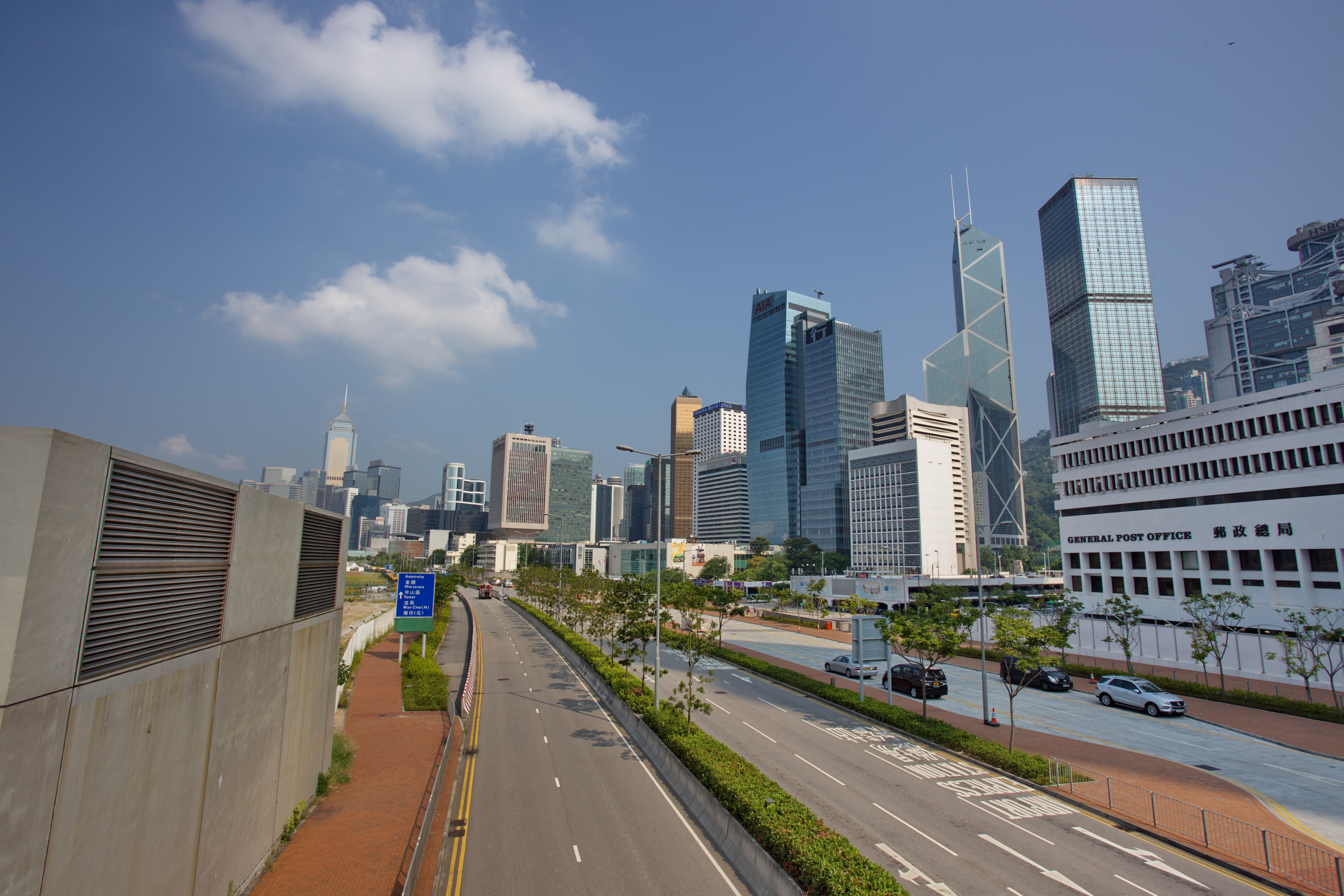 Lung Wo Road at Central 中文（香港）: 中環龍和道